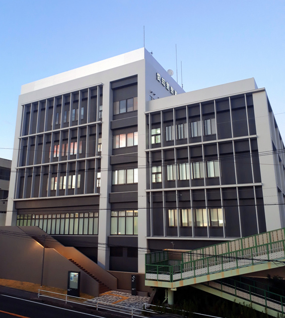 愛知警察署新庁舎